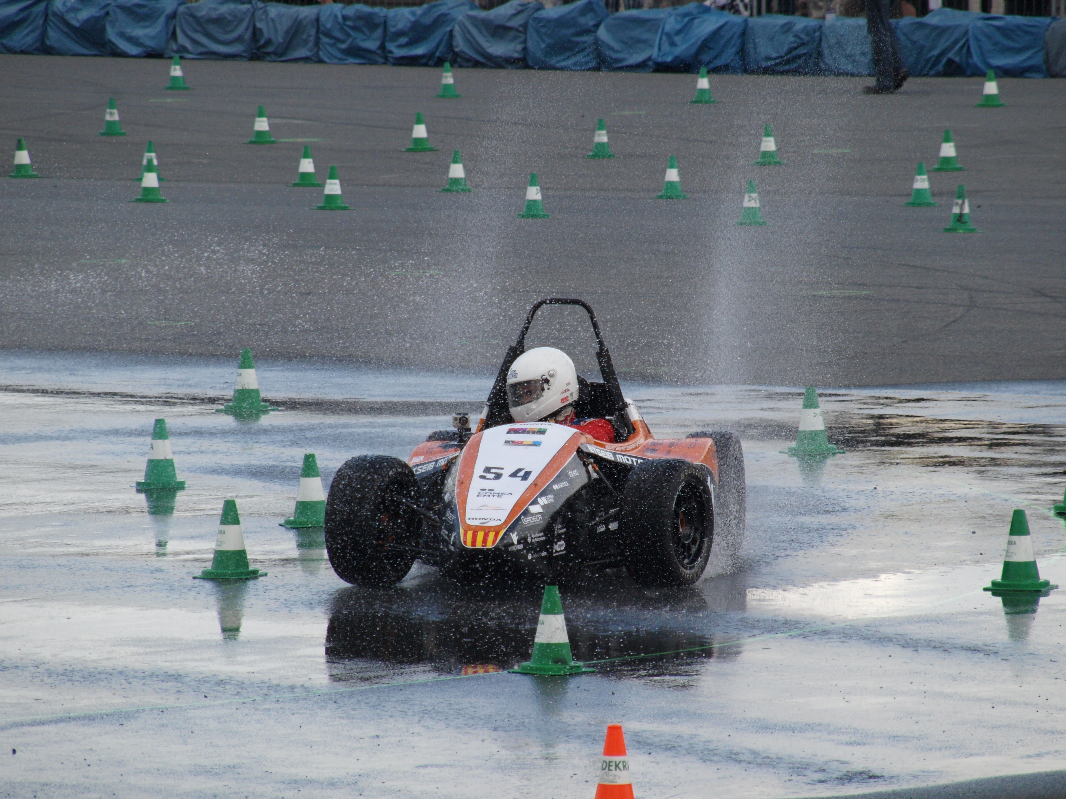 Picture of the CAT04 during the FSG skid pad event